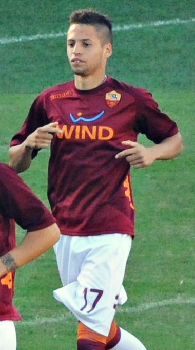 AS Roma players before the game between Liverpool and AS Roma at Fenway Park, 25 July 2012.